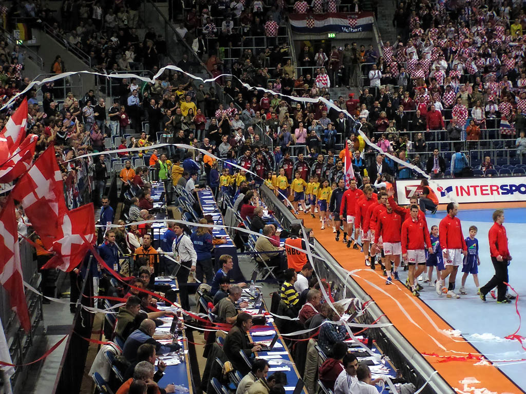 Deployment of the Danisch and Croatian teams, on January 24th 2007 in Mannheim , SAP-Arena (Germany), prior the Handball World Championchip game, 26:28 (12:15)